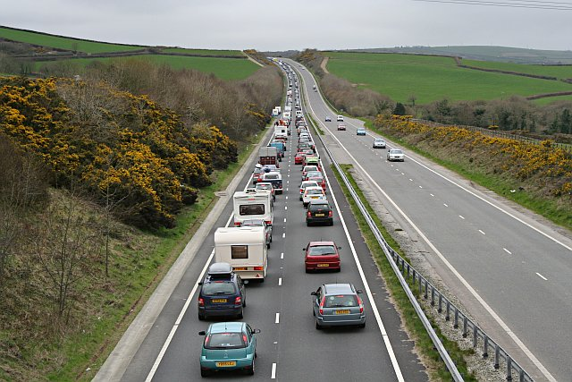 It's Good Friday, the start of the Easter Holiday break and rather a lot of people at this hour of day want to take their cars and caravans to Mid/West Cornwall, the direct railway alternatives not yet in full Summer swing (six month services run for example direct to Newquay not just Penzance). Here is therefore bunching on the A30 Bodmin Bypass.